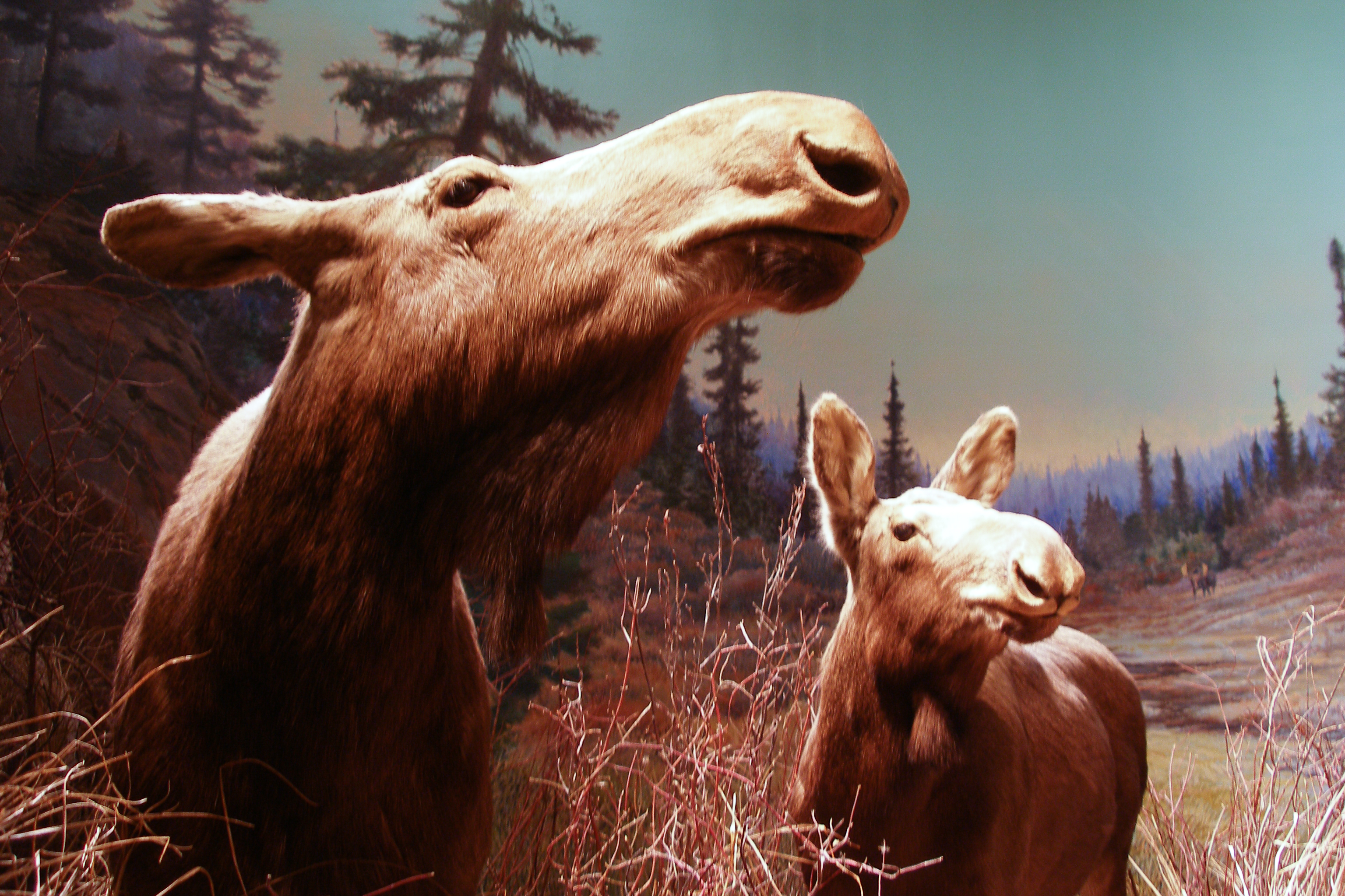 Moose diorama at the Manitoba Museum in Winnipeg, Manitoba, Canada.